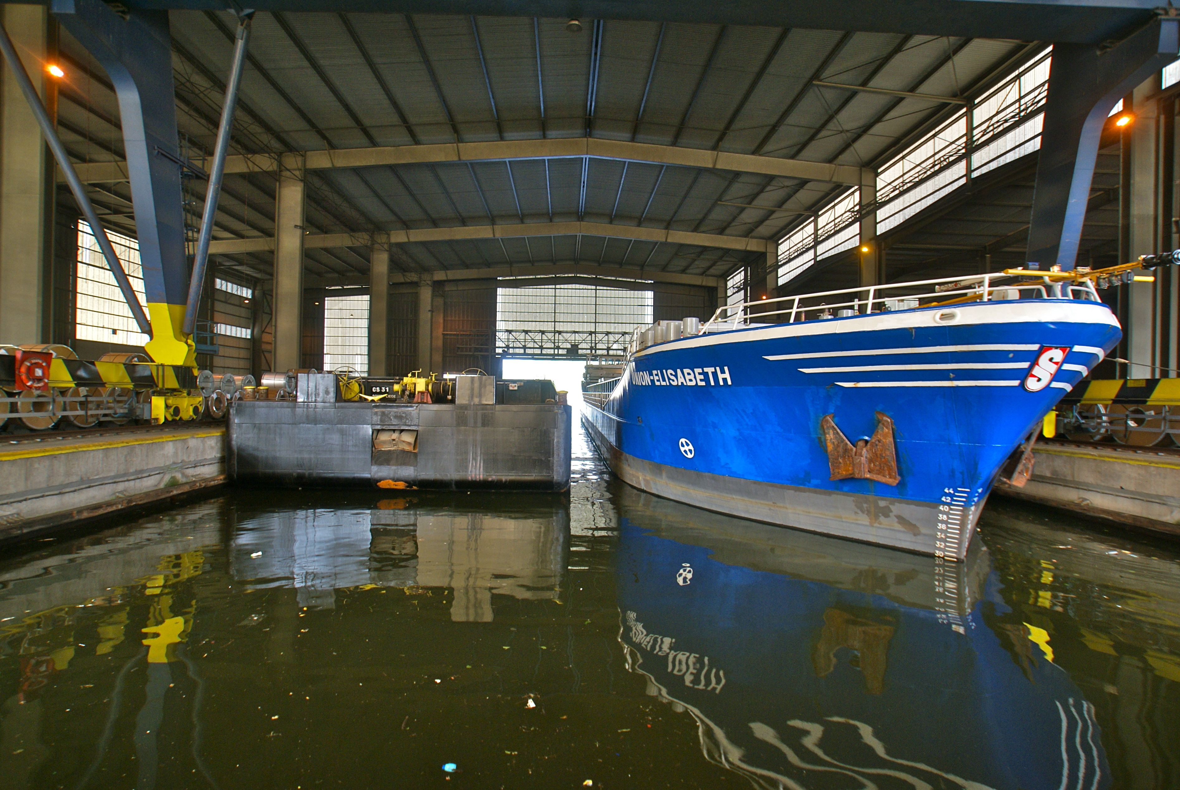 Liège, Belgium: Dock